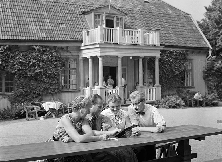 FOTOGRAFISkärholmens gård. Scoutförbundet ordnar föräldrakurs. Vid bordet sitter fr.v. Annie Wetterling, kursledare Harry Avrén, Aud Berg, Åke Lindgren. 1957-1957FOTOGRAF: Ehnemark, Jan (Pressfotograf). Svenska DagbladetBILDNUMMER: SvD 31072Stadsmuseet i Stockholm